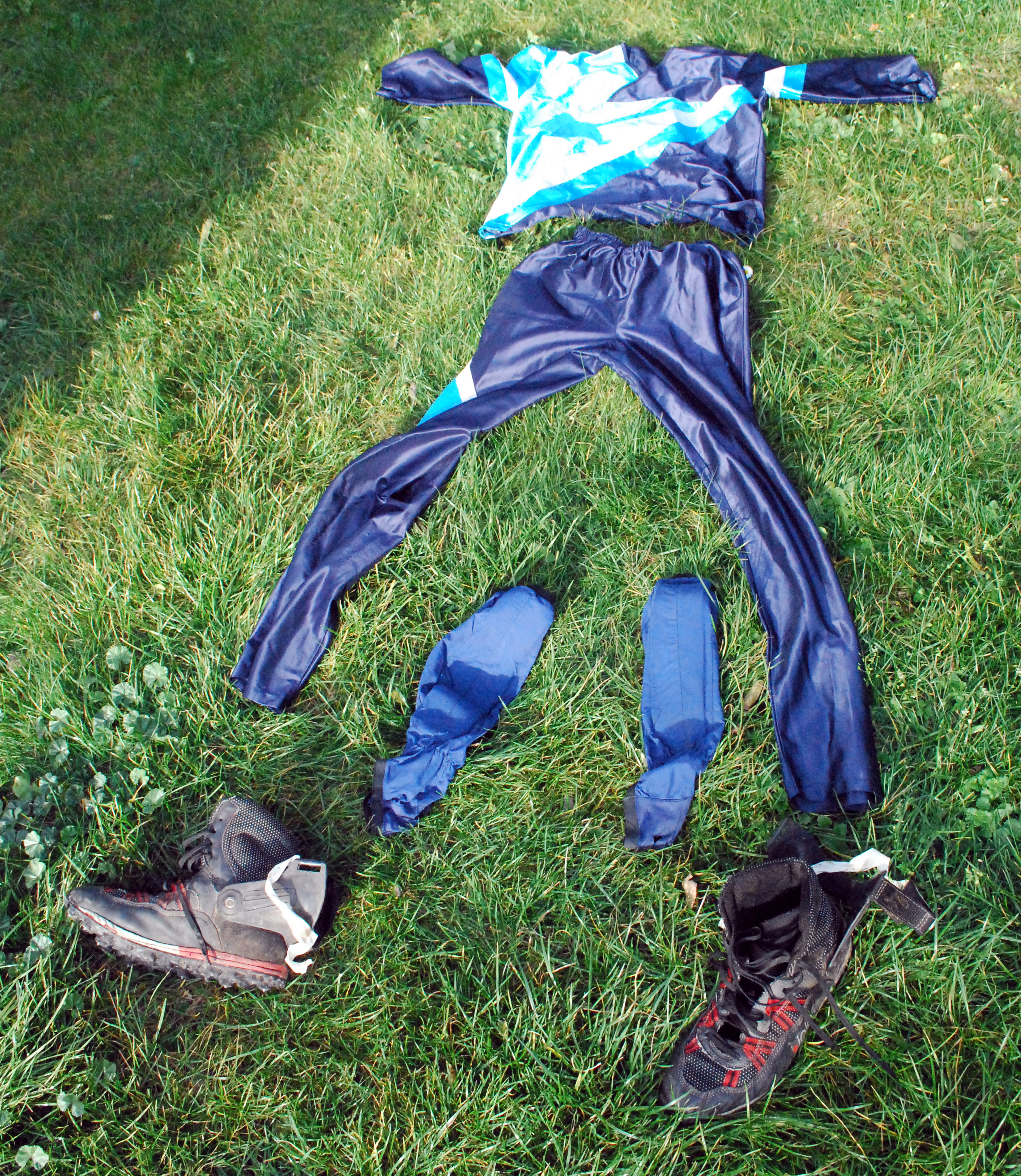 Orienteering clothing